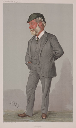 From the caricature in Vanity fair. Men of the Day Nº 947. Caricature of Mr. J.I. Thornycrof, published in Vanity Fair on 19 January 1905. Caption reads: "Destroyers". ( Author: Leslie Ward